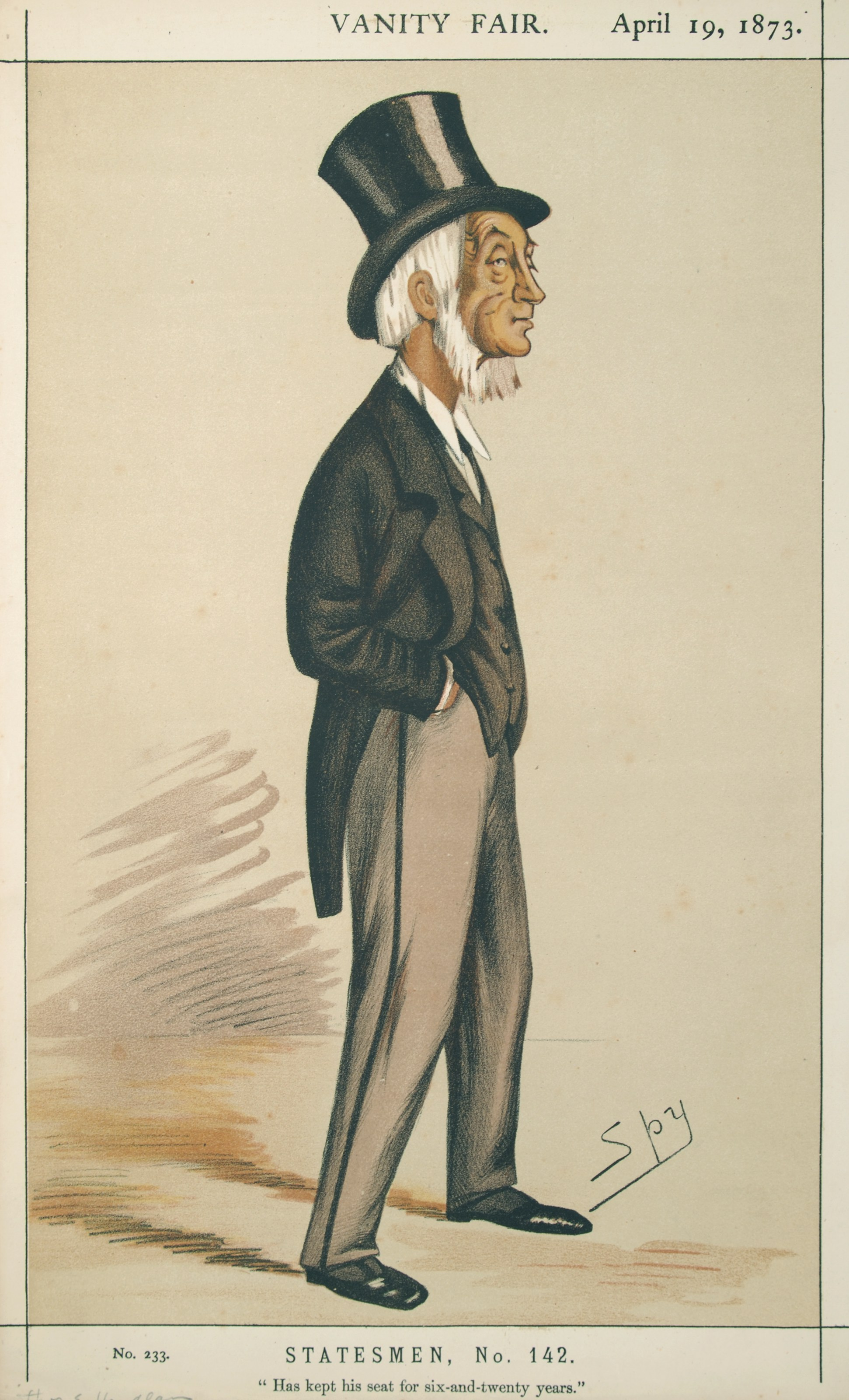 Caricature of Thomas Emerson Headlam MP. Caption read "Has kept his seat for six-and-twenty years".